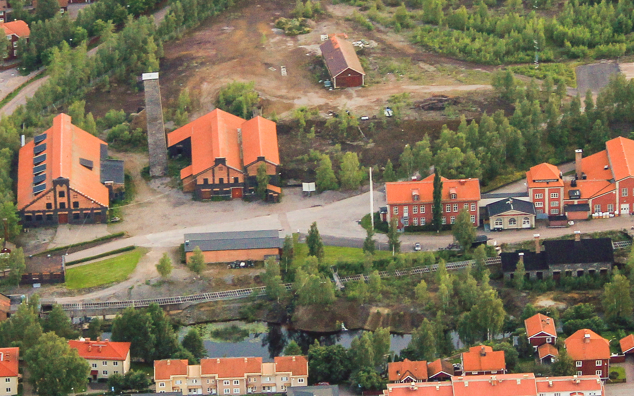 Flygfoto över Vitriolverket, Extraktionsverket med Kopparverket och Zinkhyttan samt Silverhyttan i Falun, Dalarna. Crop from original file.